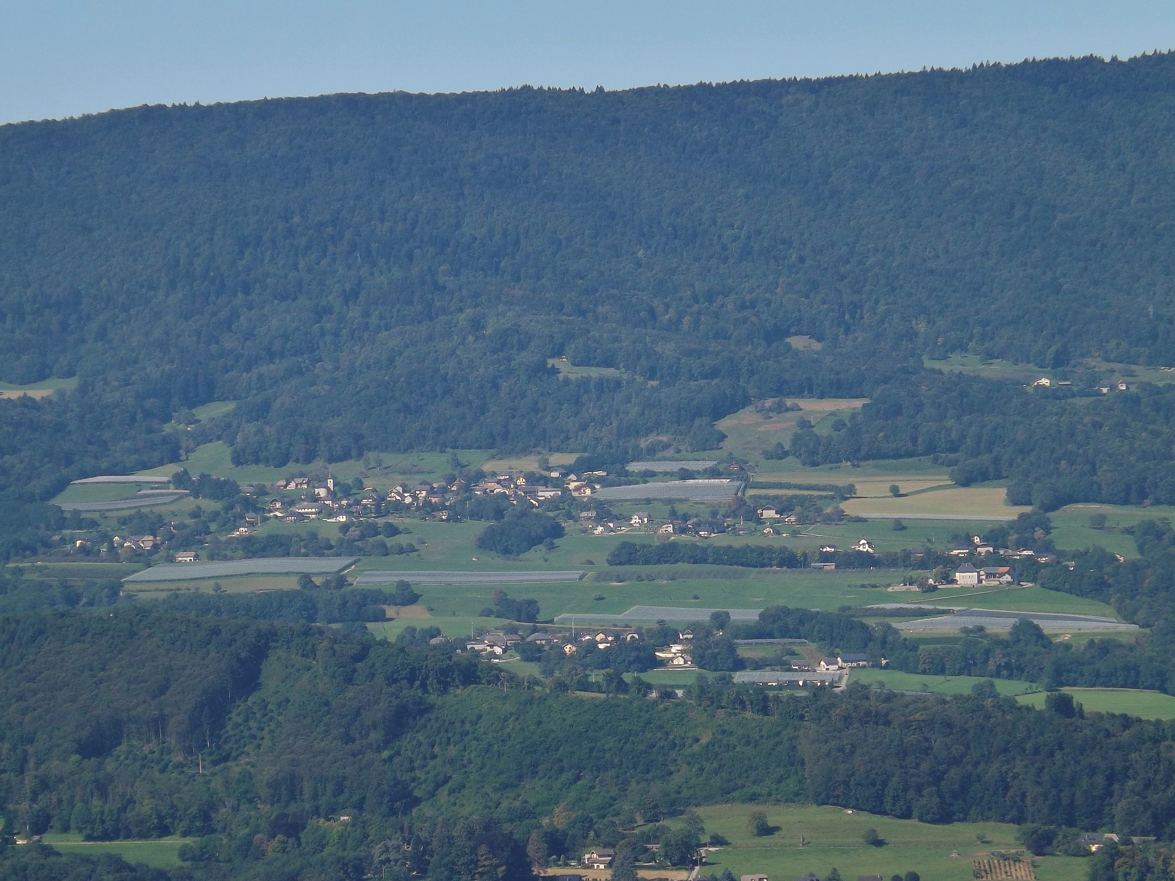 Panoramic sight, from the heights of Chambéry, of the French commune of Saint-Sulpice on the eastern side of the chaîne de l'Épine mountain, above Chambéry in Savoie.